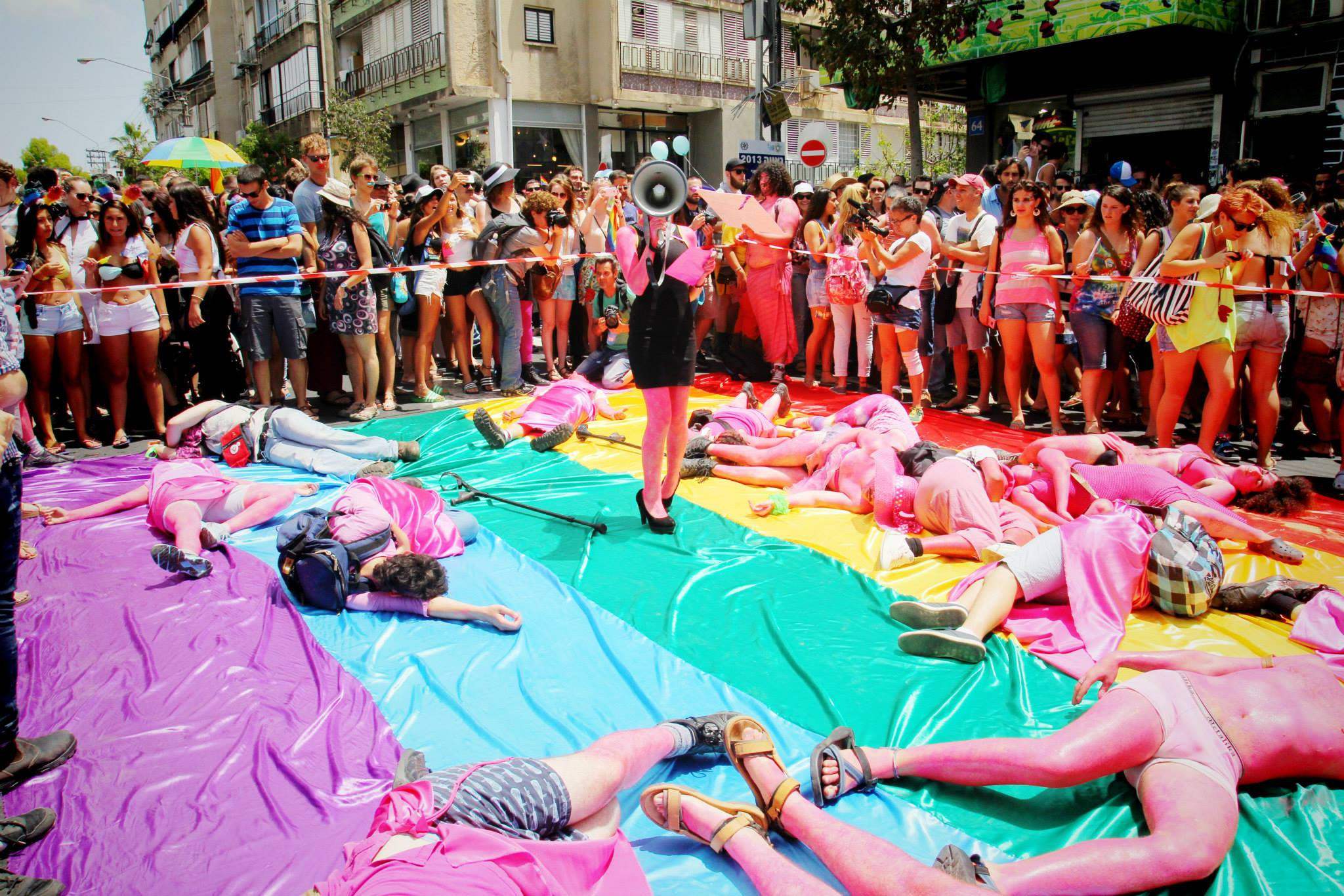 During the 2013 Tel Aviv Pride Parade, the anarcho-queer collective "Mashpritzot" held a die-in to protest Israeli pinkwashing, and the homonormative priorities of the city-sposored LGBT center.